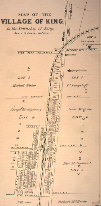 A map of King City, Ontario from Illustrated historical atlas of the county of York and the township of West Gwillimbury & town of Bradford in the county of Simcoe, Ont. Toronto : Miles & Co., 1878.